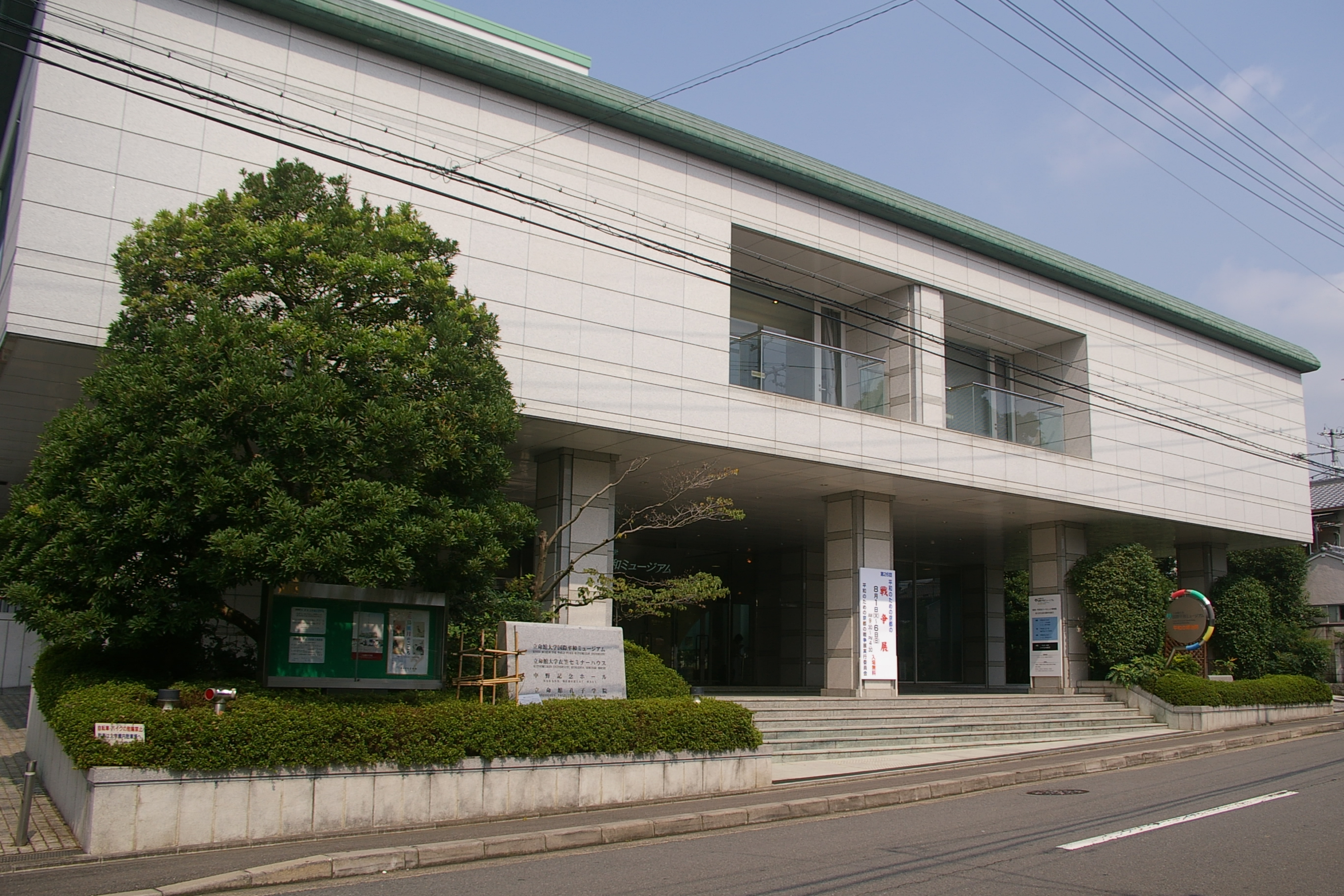 Photograph of the "Academeia Ritsumei 21" building near the Kinugasa Campus of Ritsumeikan University in Kita-ku, Kyoto, Kyoto Prefecture, Japan.